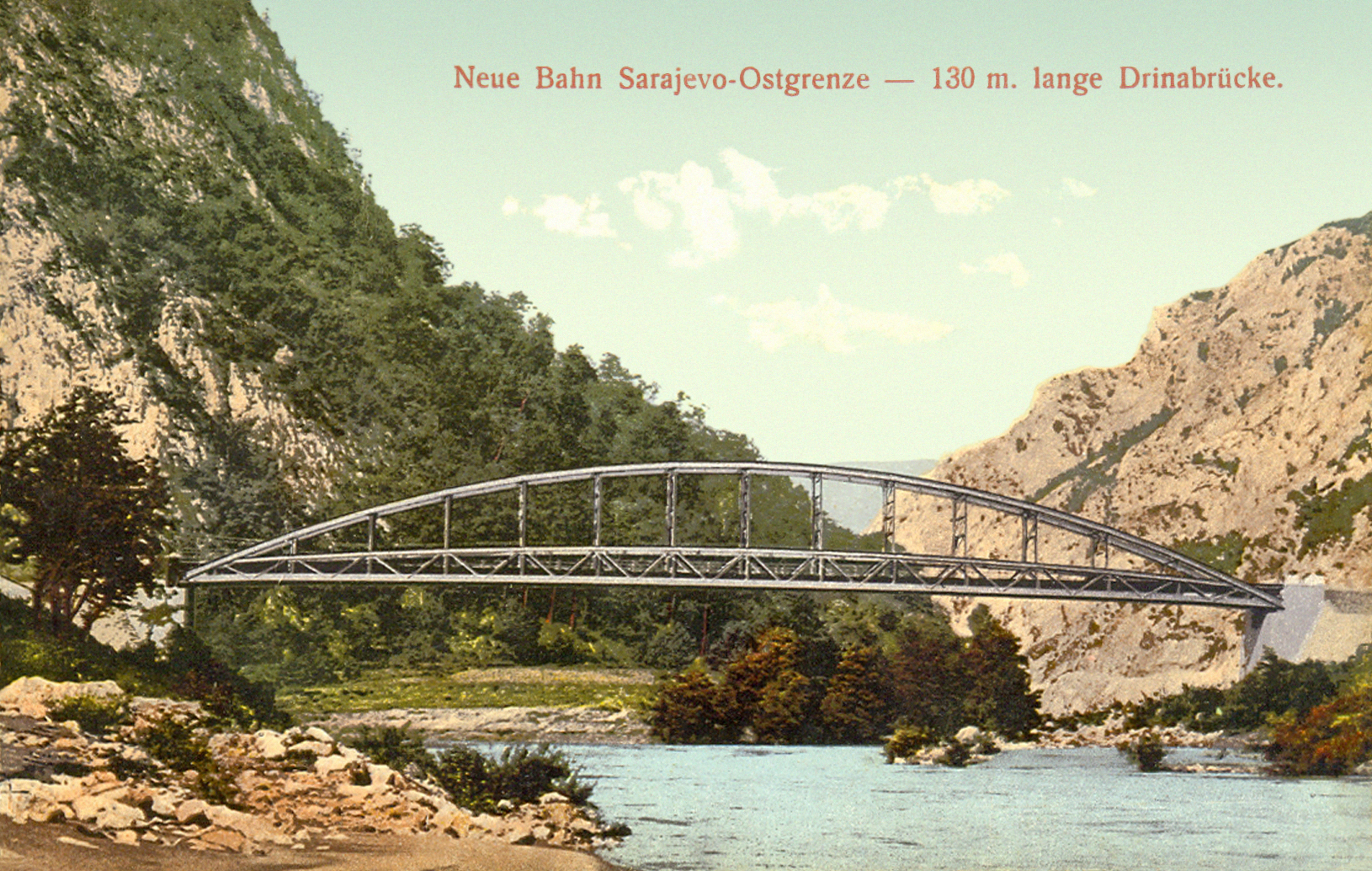 The railway bridge on the Drina River as seen in this upstream view at the mouth of the Lim River, with the railway line branching off in two directions to the left, one to Uvac, the other to Vardište